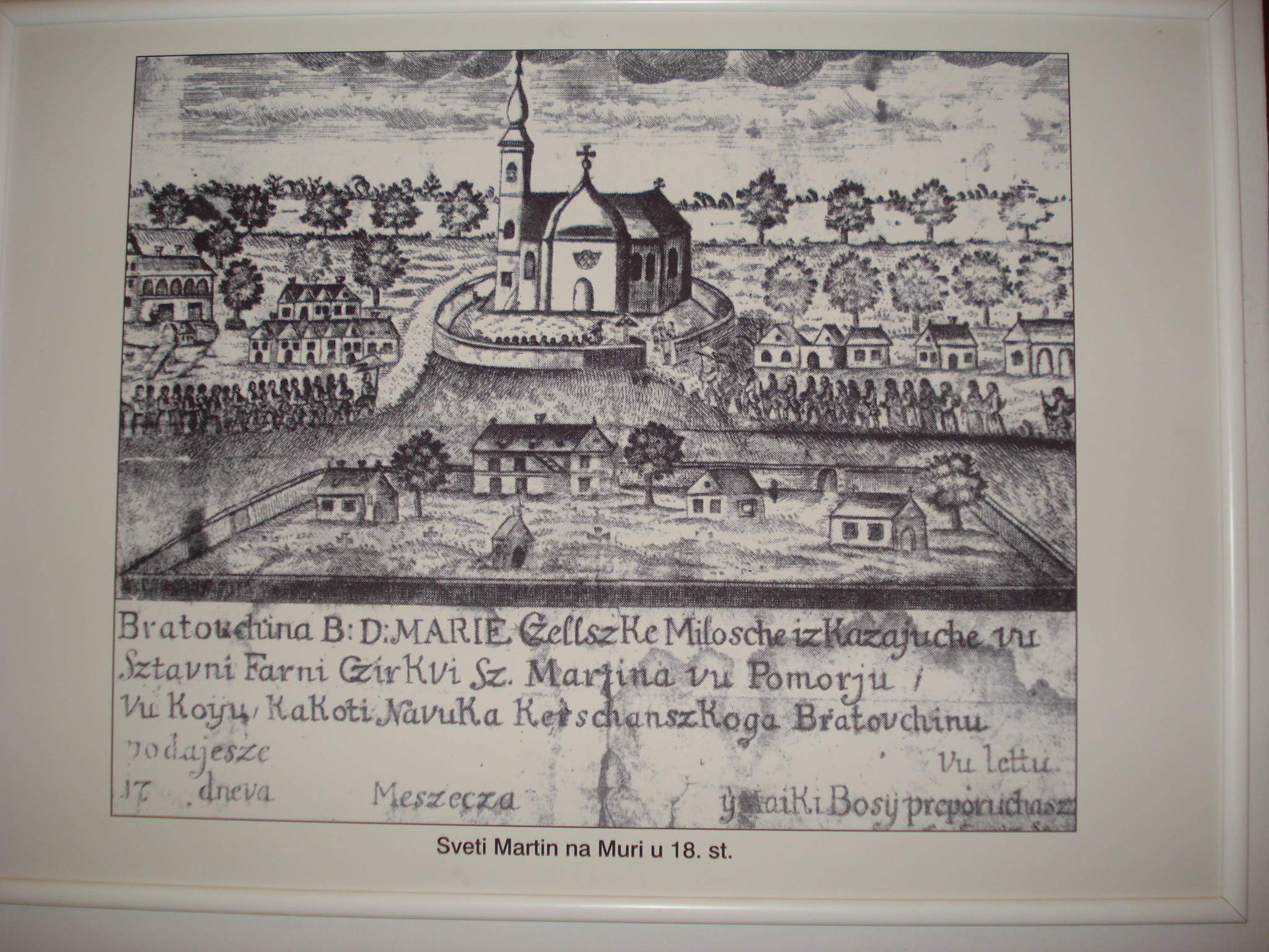 Sveti Martin na Muri (Međimurje County, Croatia) in the 18th century